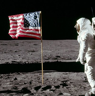 Cropped version of Image:AldrinFlag1.jpeg (File:Buzz salutes the U.S. Flag.jpg) by For great justice. 16:18, 10 April 2006 (UTC)